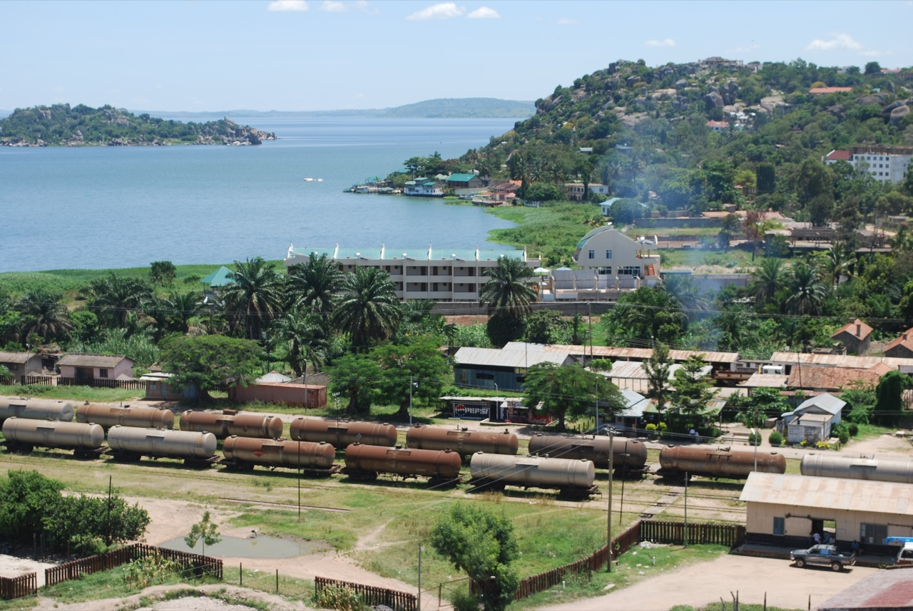 Mwanza city, Tanzania's second largest city